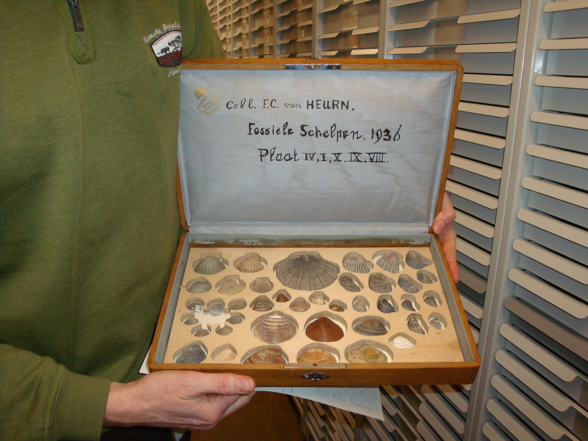 Mollusc box of F.C. van Heurn